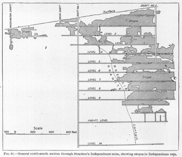 IndependenceMine2